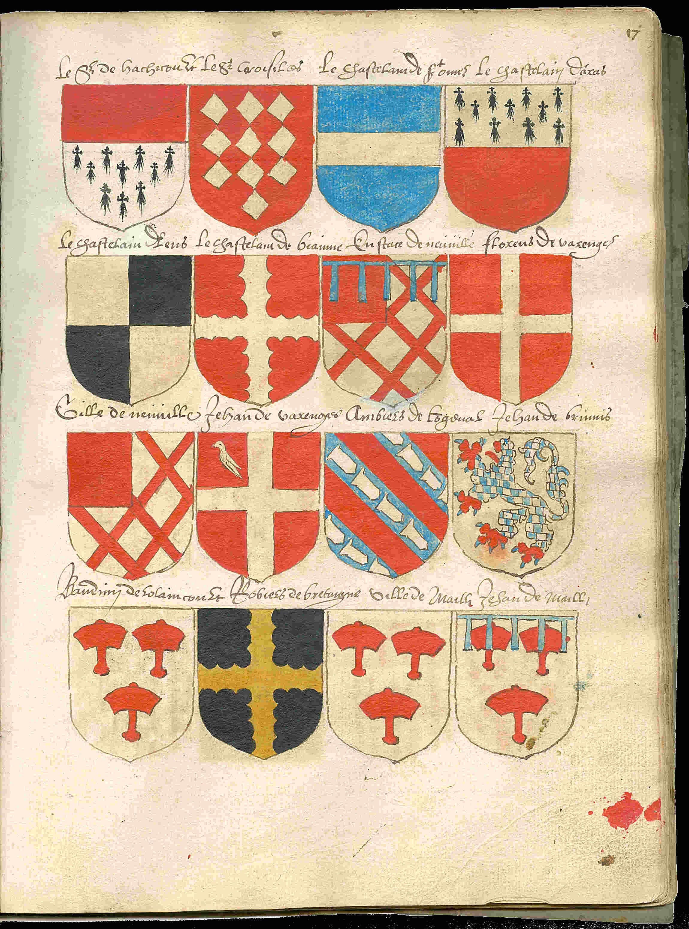 Page 17 from a copy of the Beyeren armorial / Wapenboek Beyeren from ca. 1600. The original Beyeren armorial from 1405 can be viewed at the website of the KB